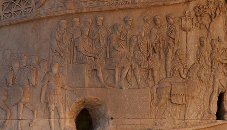 Trajans's column seen from east. Panoram from 8 images, exif taken from the middle on. Cut into pieces by user:sailko